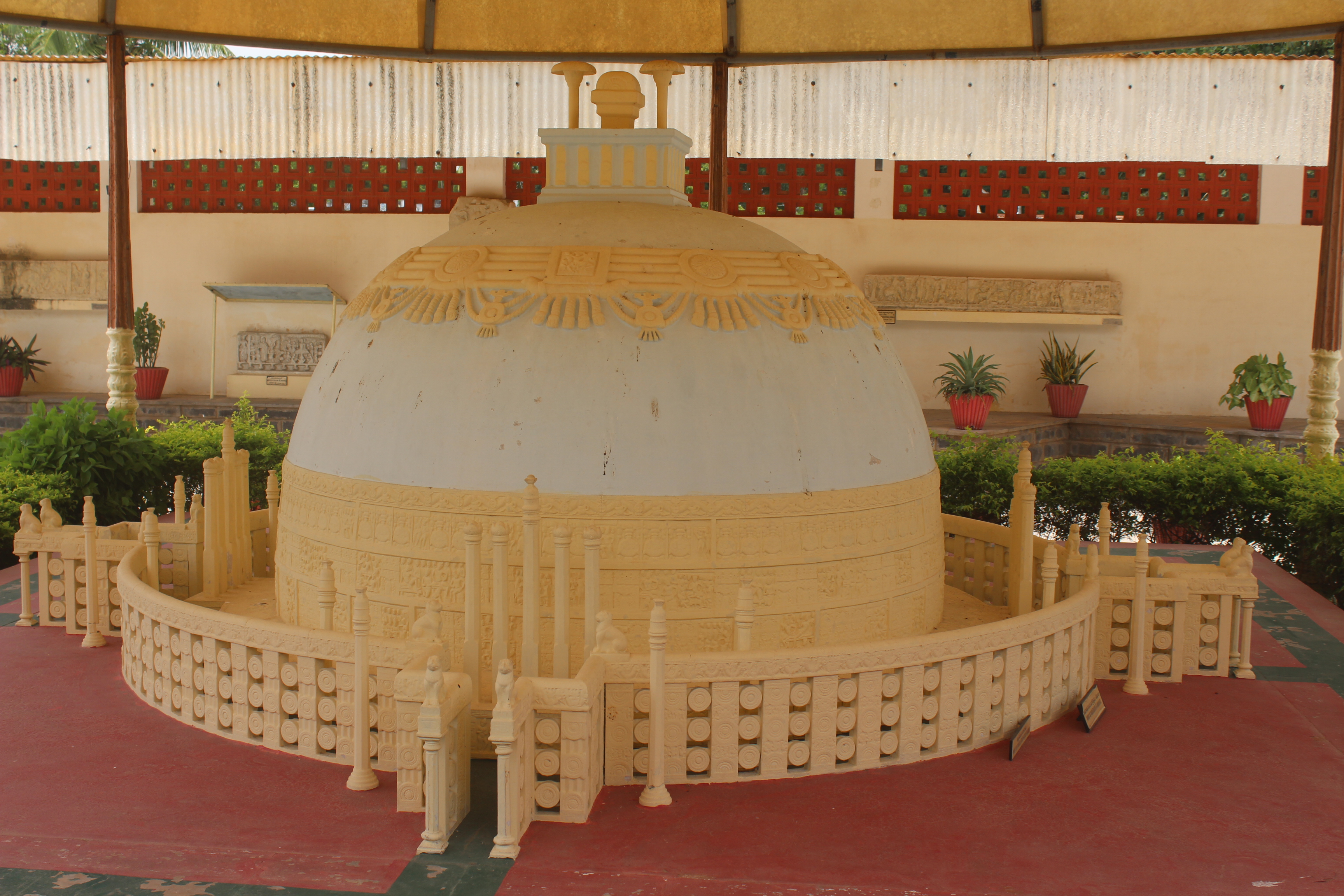 The Amaravati Archaeological Museum is a museum located in Amaravati, a village in Guntur district of the Indian state of Andhra Pradesh.